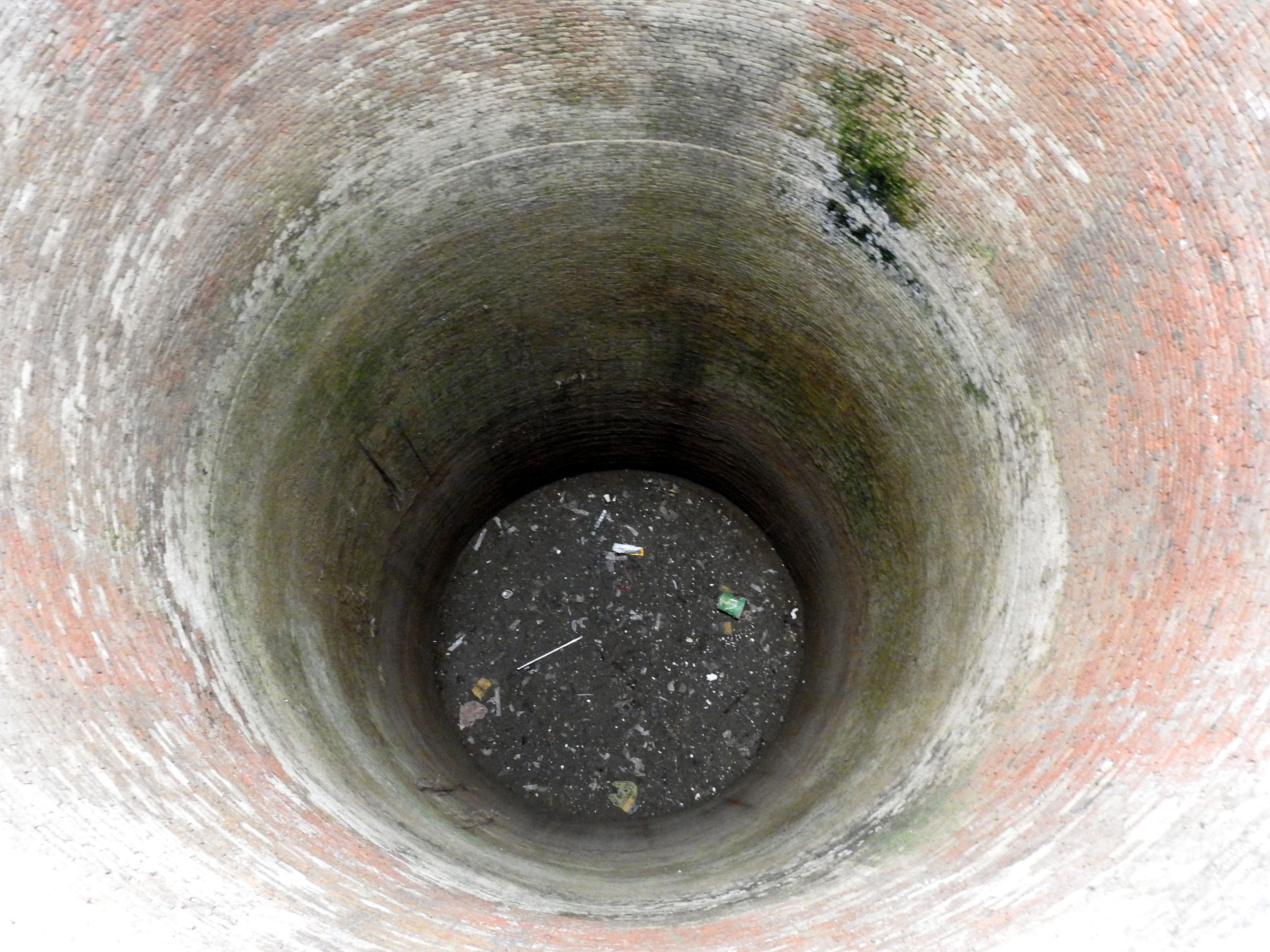 During the 1857 First War of Indian Independence from British colonialism, many Indian soldiers revolted against the British Army which is known as Gadar of 1857 . Around 500 soldiers revolted at Mian Mir Cantonment in Lahore. They swam across the Ravi River to reach the town of Ajnala, which is now in Amritsar district. out of them, 218 were killed by British soldiers at Dadian Sofian village near Ajnala. The remaining 282 were stuffed in a small room, where many died of asphyxiation.Then their bodies were thrown into a well, which was later named "Kalianwala Khu" and "Shaheedan da Khu".